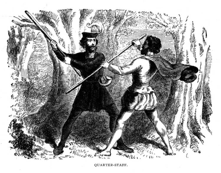 Line drawing of quarterstaff held by pugilists